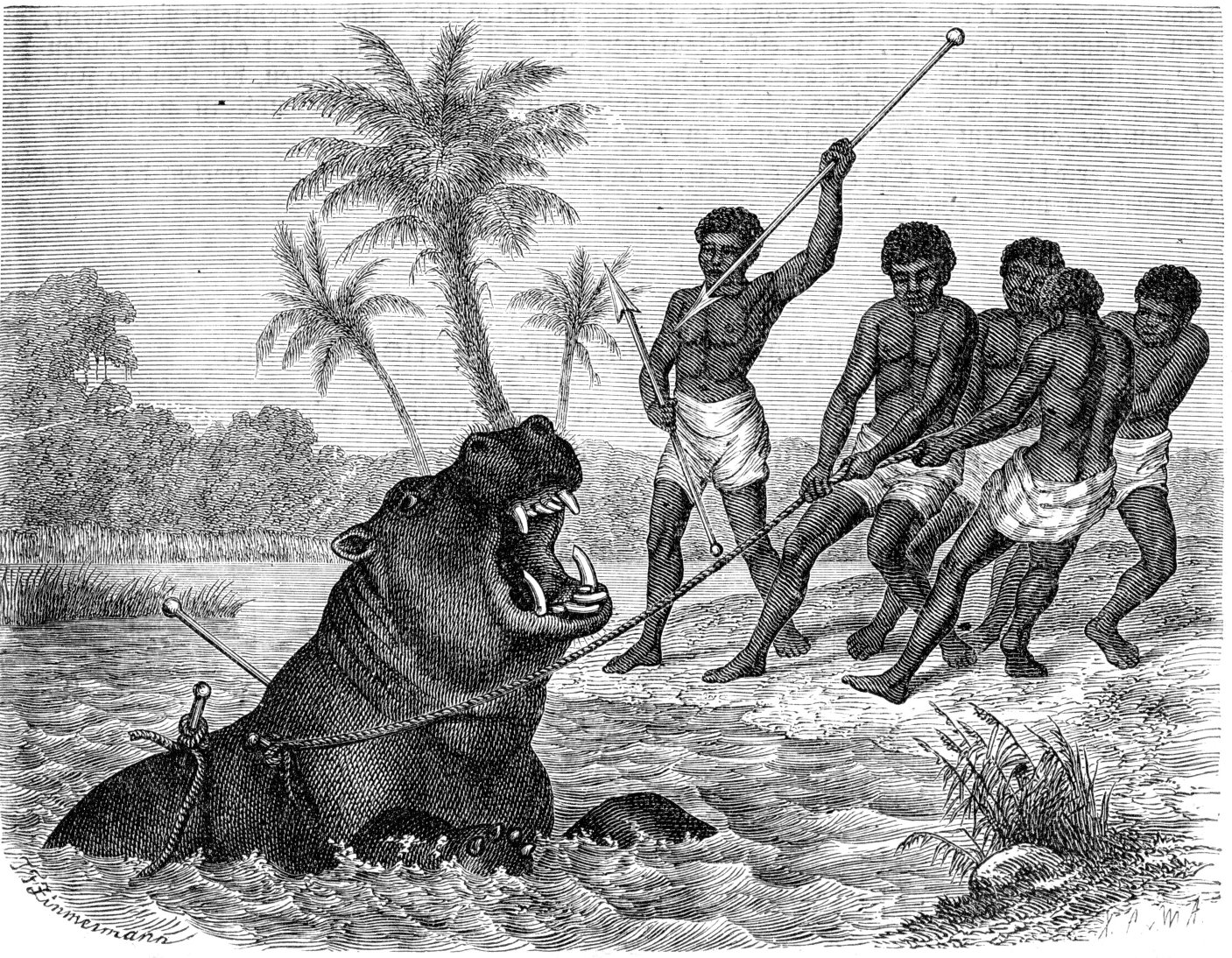 Original caption: "Fig. 76. Das Flußpferd. (Hippopotamus amphibius, L.)" Translation (partly): "Fig. 76. Hippopotamus. (Hippopotamus amphibius, L.)" Size: 4.7 x 3.7 in² (11.9 x 9.4 cm²)